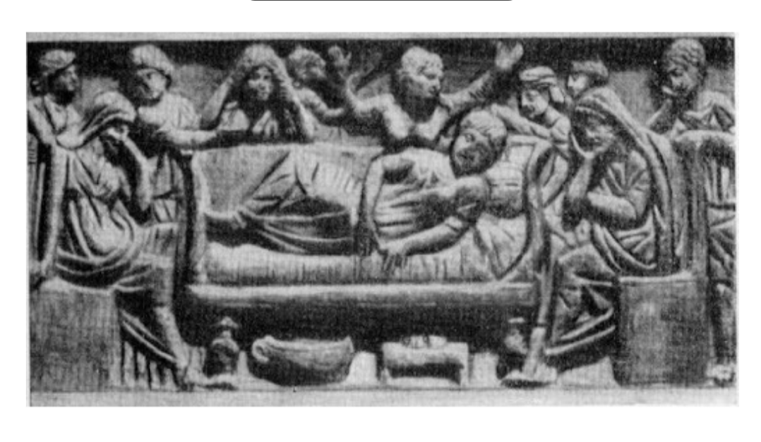 Останнє прощання Последнее прощание. (Саркофаг, рельєф. Лувр).